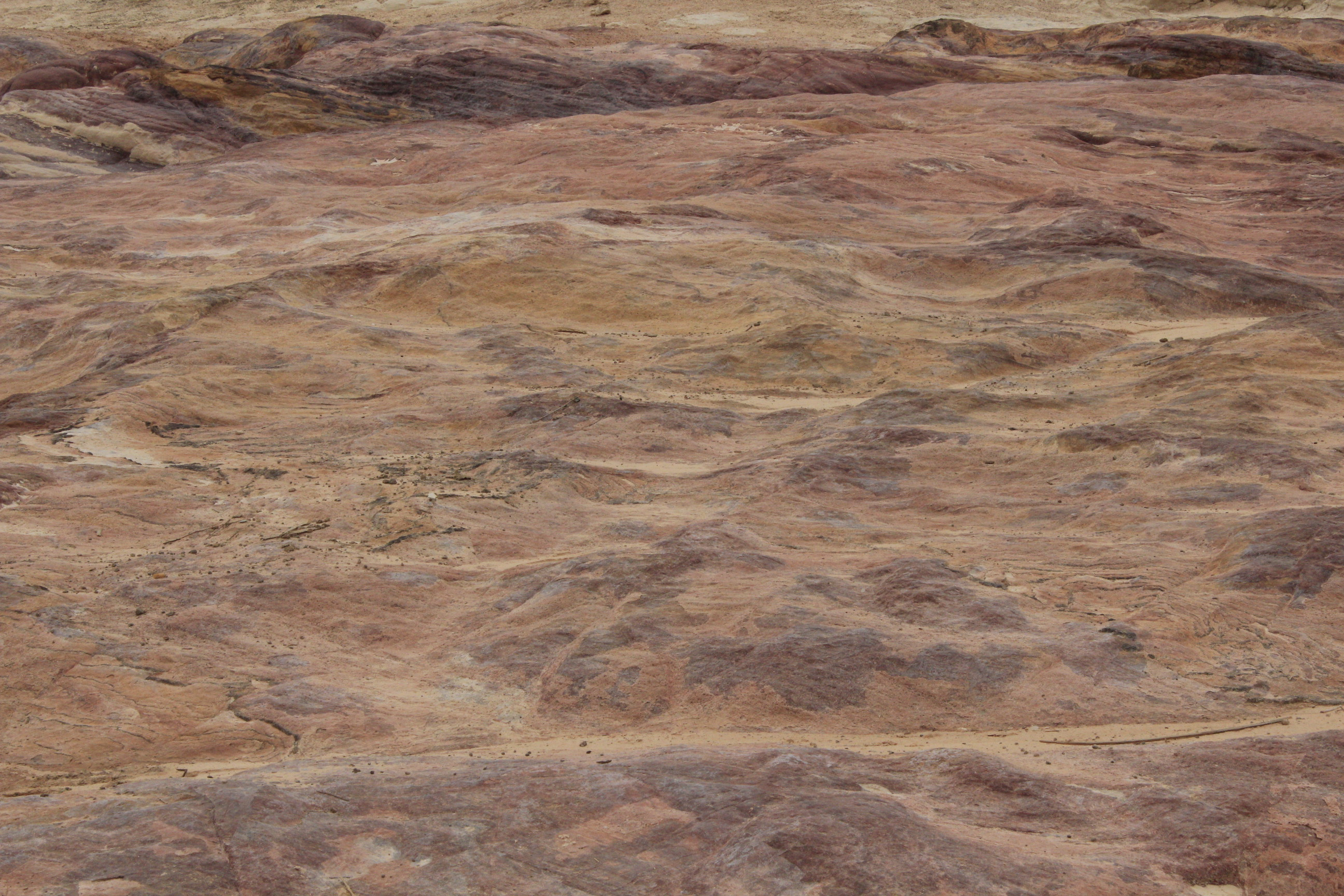 Coloured land in Nuweiba, Sinai